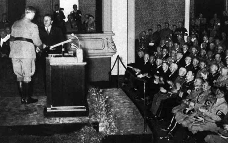 Alfred Rosenberg (backwards on stage), principal Nazi intellectual, is handing a NSDAP art prize (Preises der NSDAP für die Kunst) to Hanns Johst, expressionist playwriter and Nazi culture official in Nürnberger Operahaus.